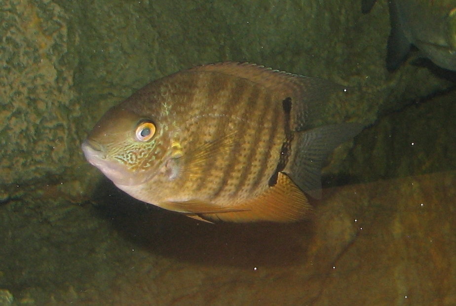 Green Severum (Heros severus) at Louisville Zoo